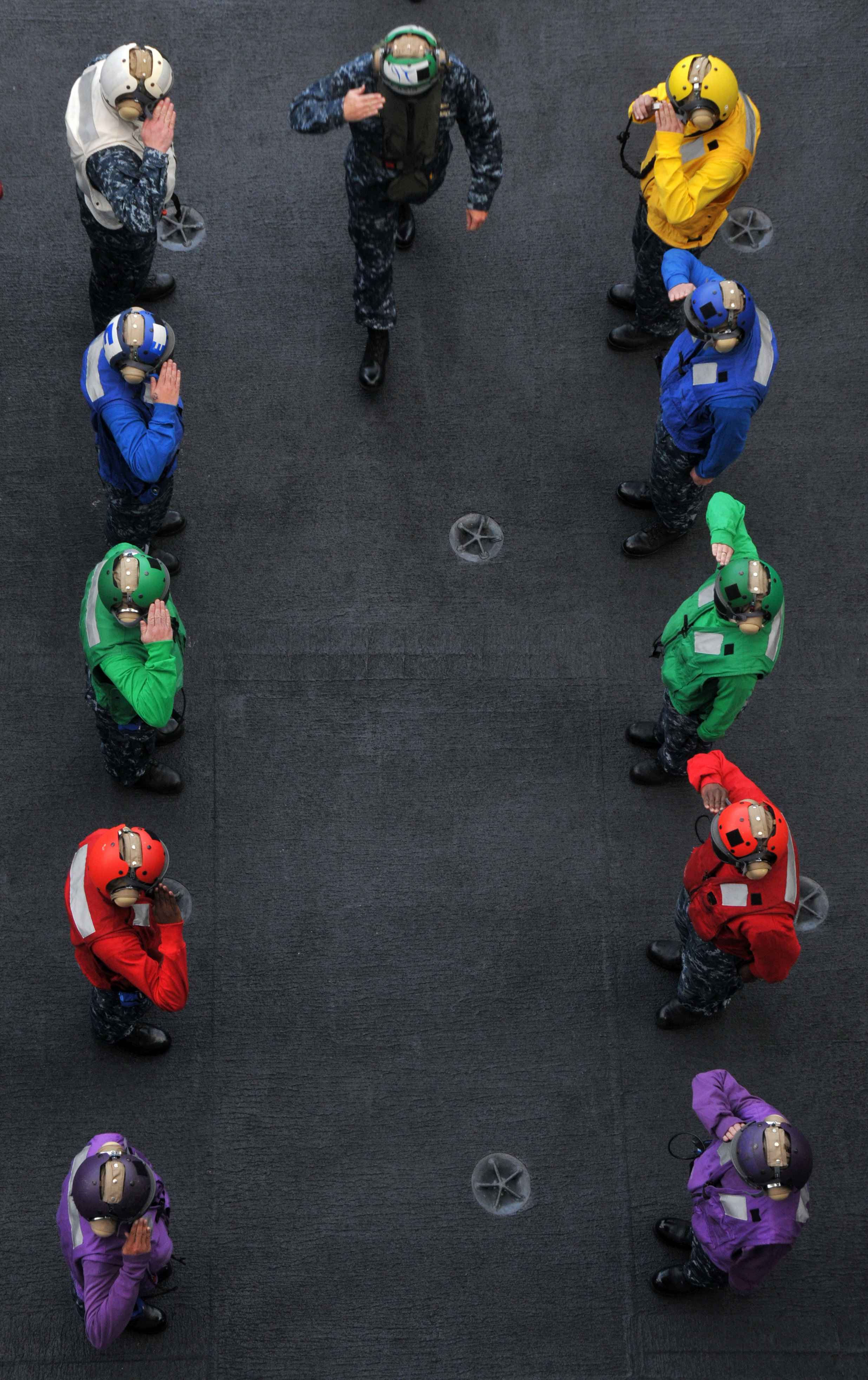 PACIFIC OCEAN (Aug. 10, 2010) Vice Adm. Richard W. Hunt, commander of U.S. 3rd Fleet, crosses the rainbow sideboys during an arrival aboard the aircraft carrier USS Abraham Lincoln (CVN 72). Hunt is visiting the Abraham Lincoln Carrier Strike Group to check on progress during the strike group's composite training unit exercise (COMPTUEX).